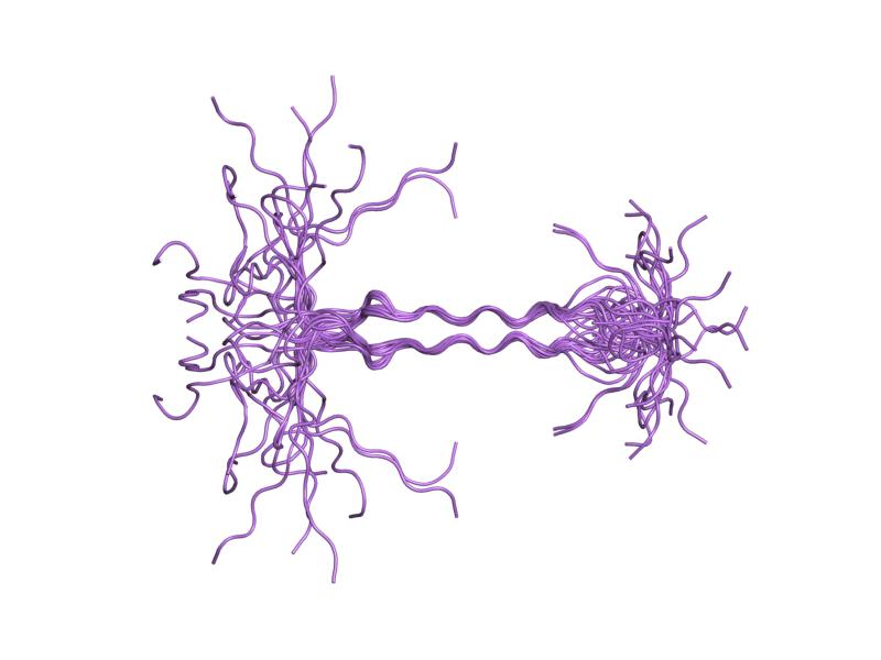 Cartoon representation of the molecular structure of protein registered with 1ejq code.